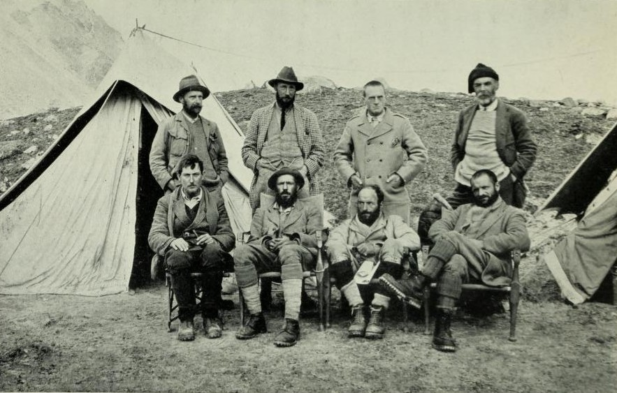 1921 Mount Everest reconnaissance expedition team members. Taken at 17,300 advanced base camp. Standing (l-r): Wollaston. Howard-Bury. Heron. Raeburn. Sitting (l-r): Mallory. Wheeler. Bullock. Morshead. Published in Howard-Bury, C. K. (1922). Mount Everest the Reconnaissance, 1921 (1 ed.). New York, Longman & Green, page 178